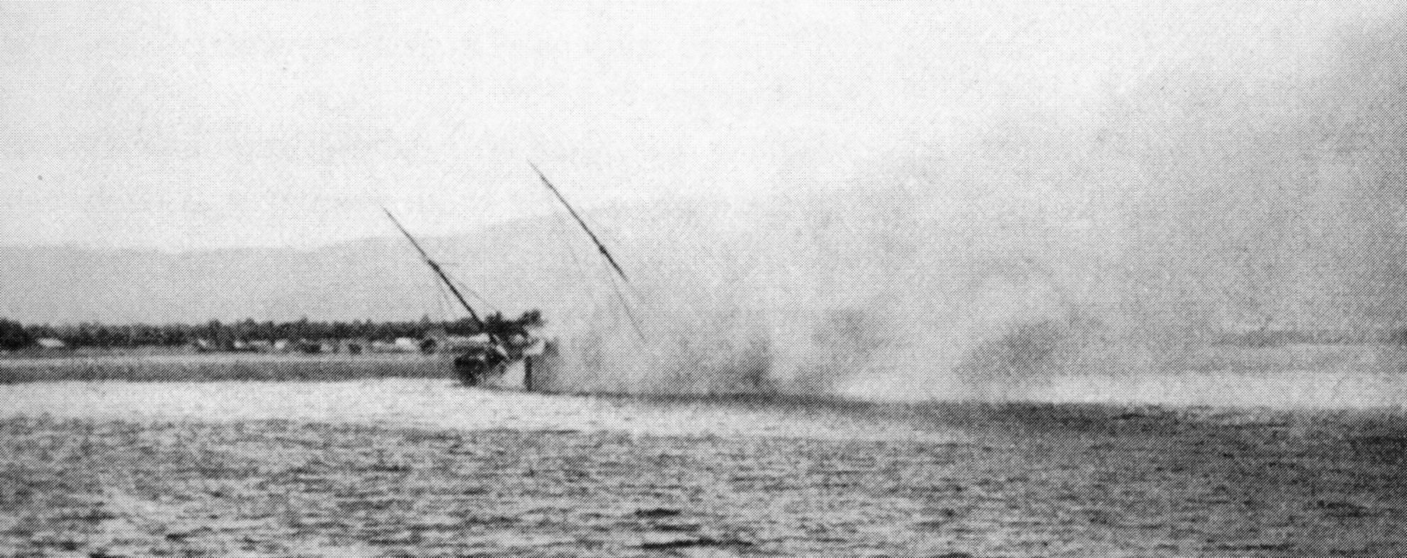 The haitian gunboat Crete-a-Pierrot sinking after gunfire from SMS Panther in Gonaives harbour, 6 september 1902. Foto taken by SMS Panther, published in the Marine-Rundschau 1902